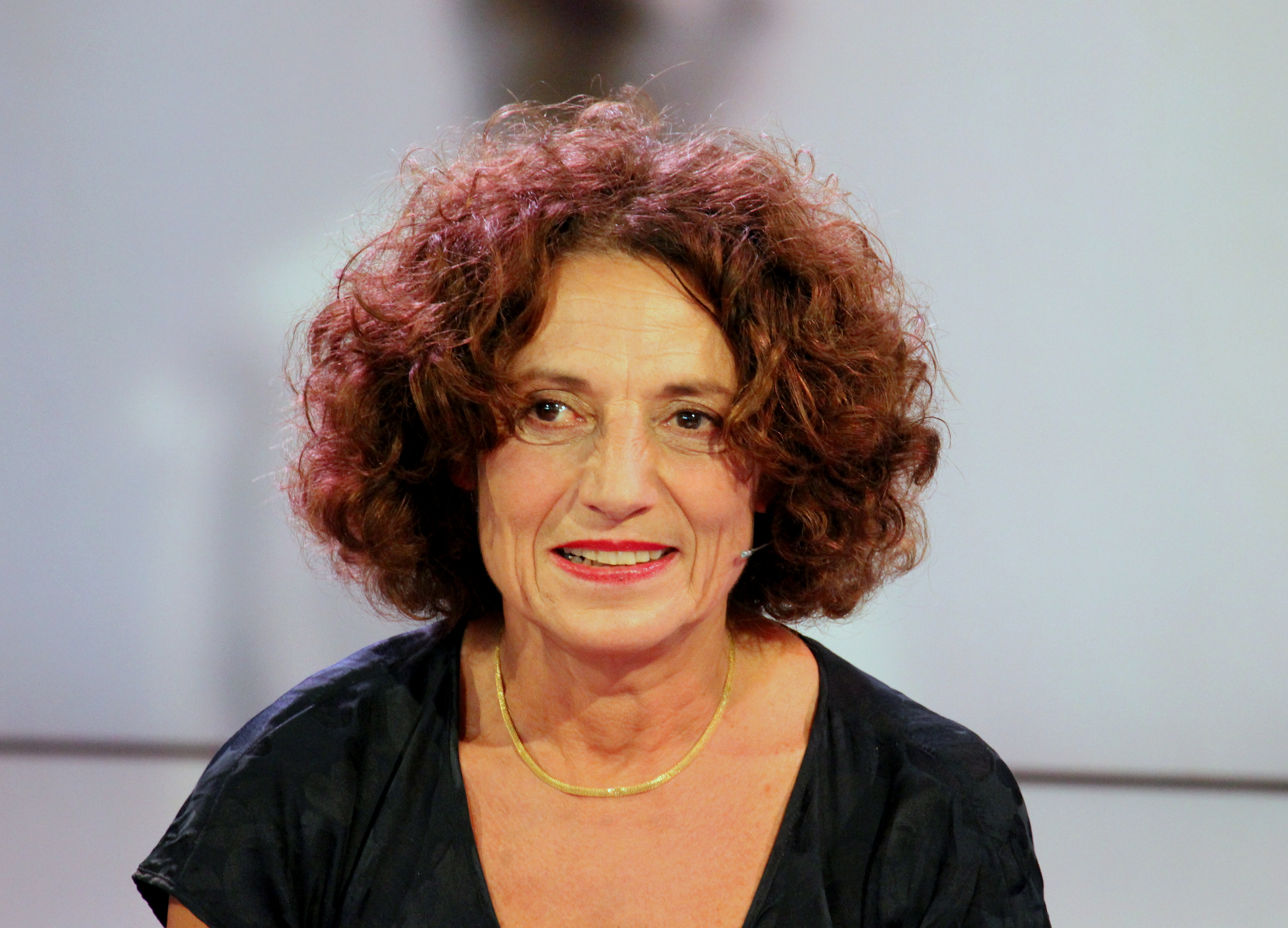 Adriana Altaras Frankfurt Book Fair 2018